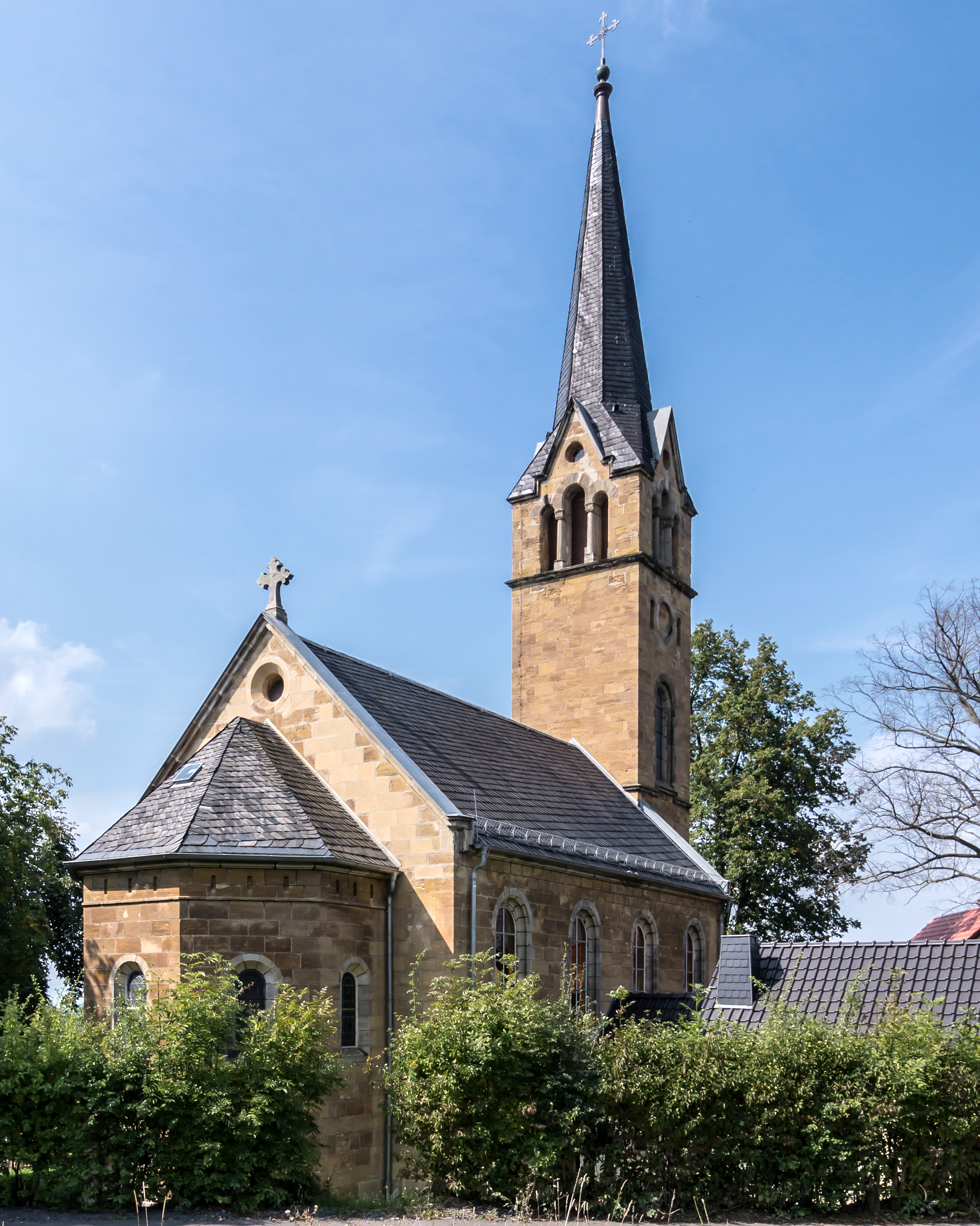 Goßwitz Kirche mit Ausstattung